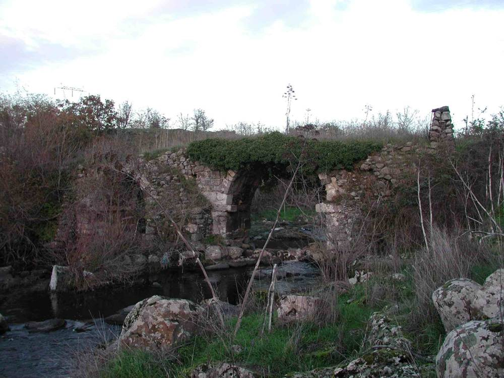 The ancient roman bridge Ponte Oinu in Pozzomaggiore (SS) in Sardinia - Italy